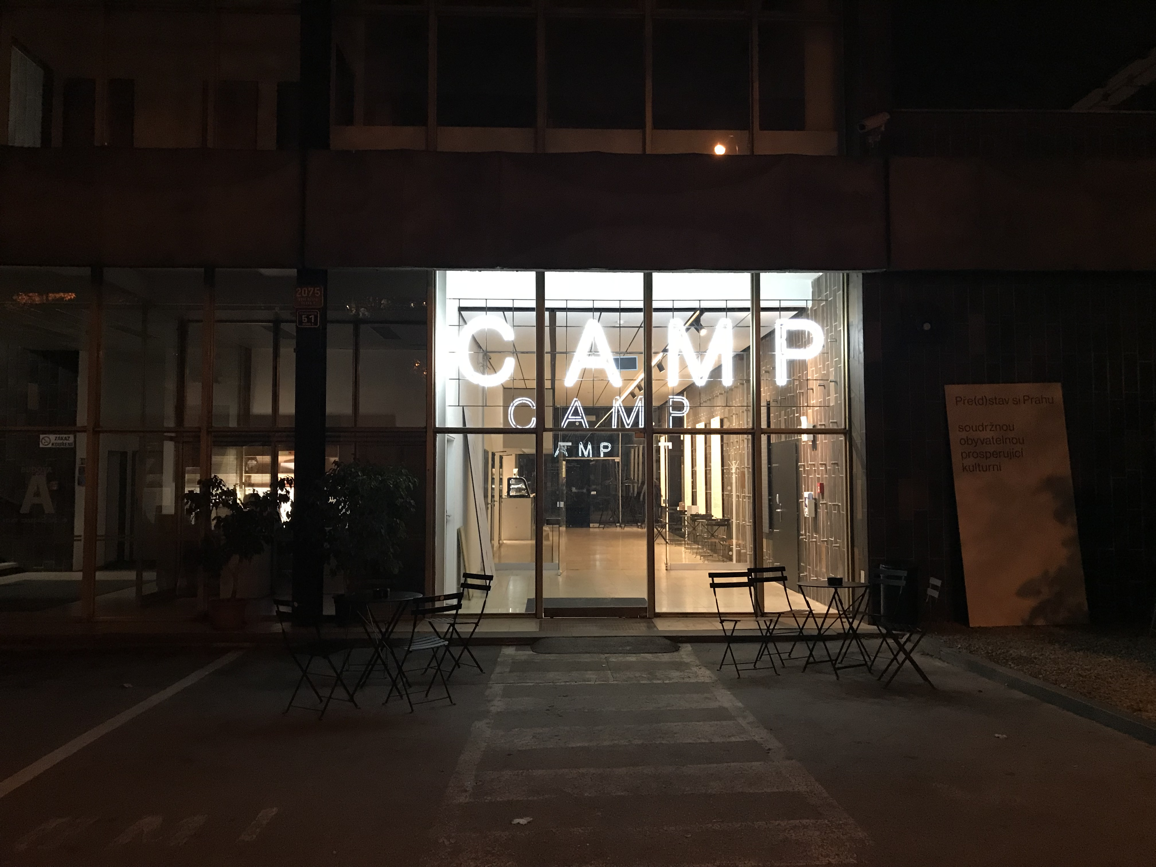 Entrance of Center for Architecture and Metropolitan Planning (Prague)